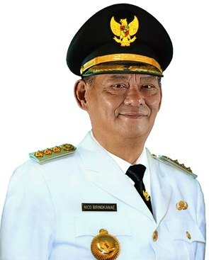 Nicodemus Biringkanae as Regency of Tana Toraja